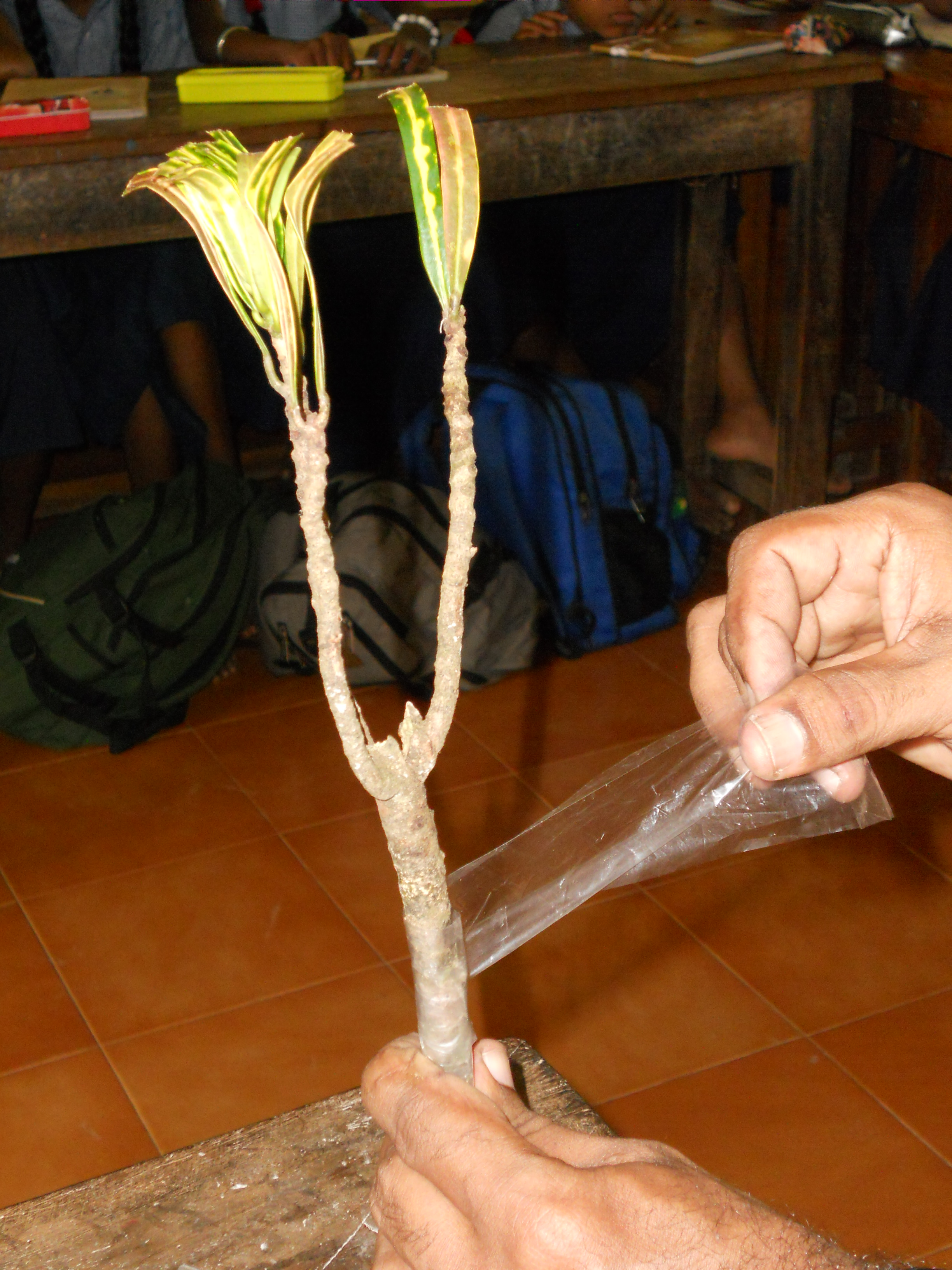 Bud wrapped with polyethylene tape.